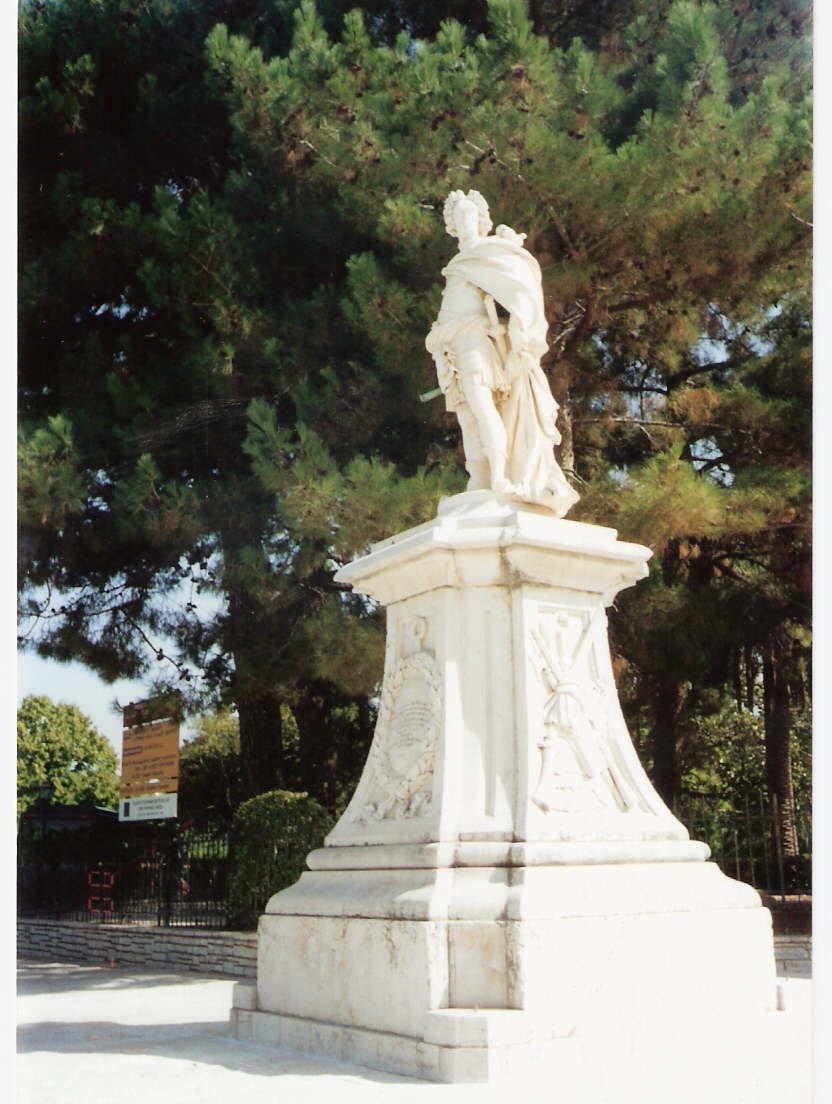 Count Johann Matthias von der Schulenburg. Monument by Antonio Corradini in Corfu (1716).